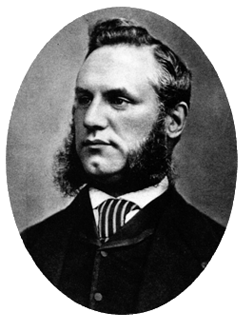 A photo of John Smith, the brewer